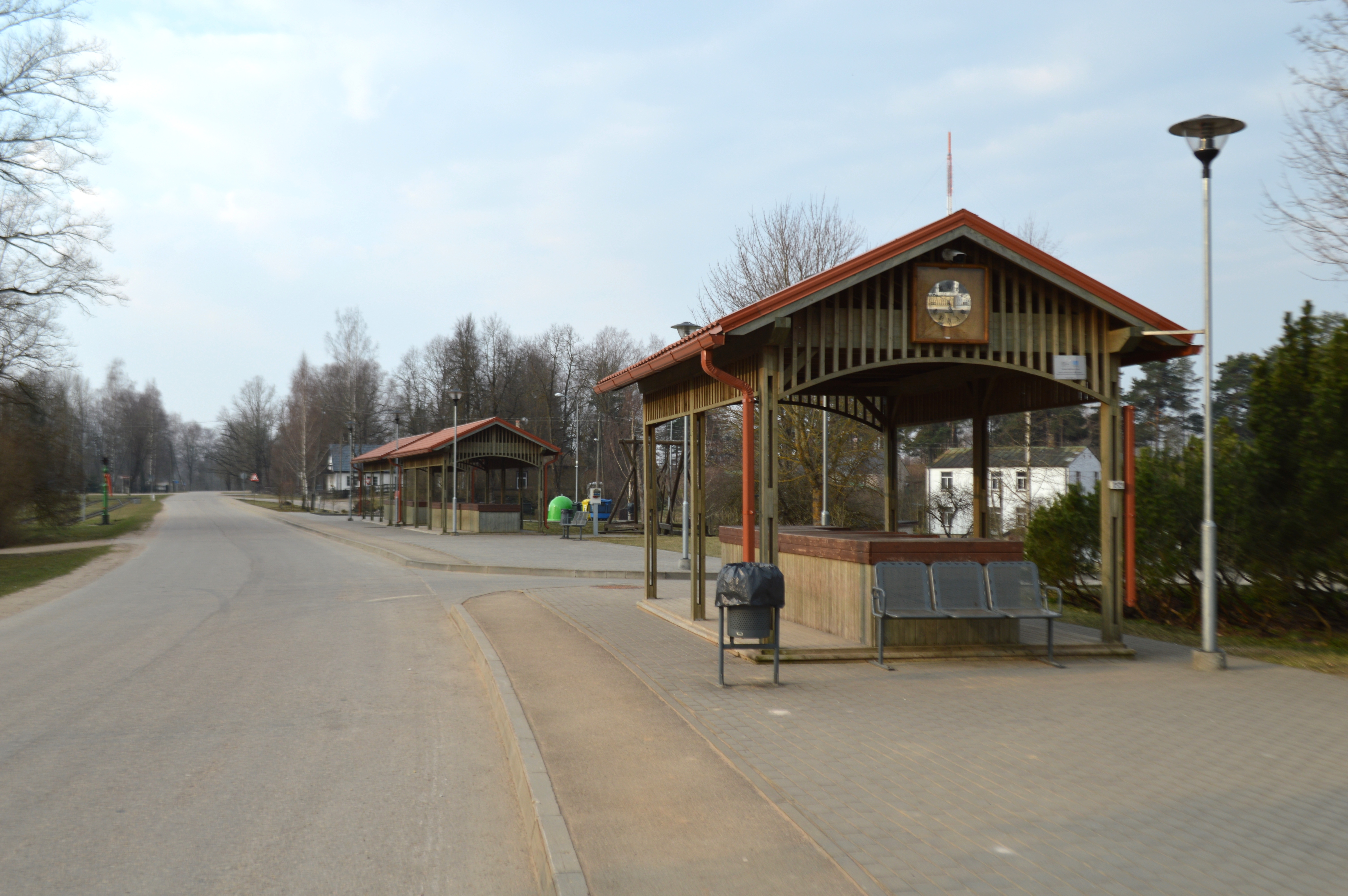 Vīseitys mīsta tiergs bejušajā Stacejis laukumā.